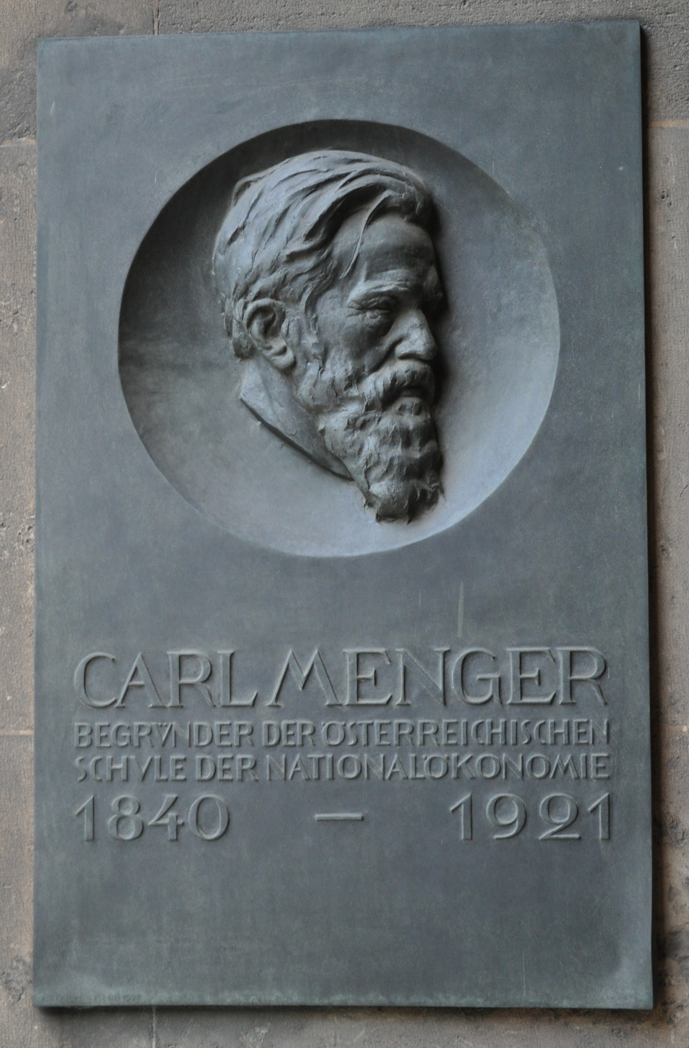 Carl Menger in the court of the main building of the University of Vienna.